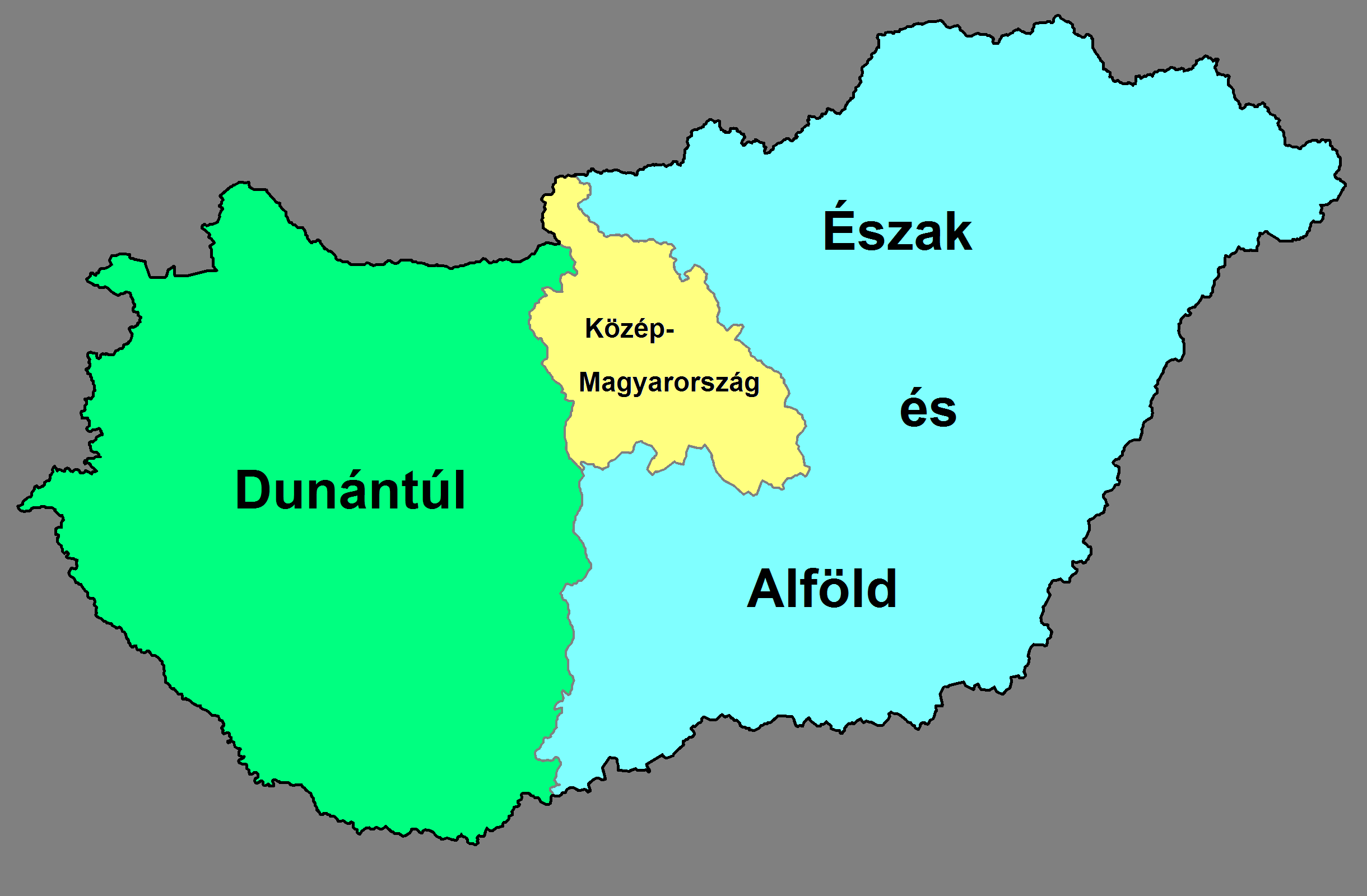 Hungary, NUTS1 regions